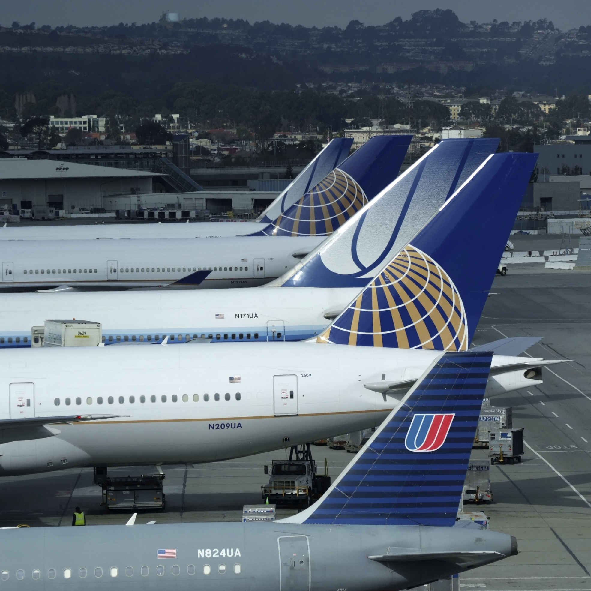 San Francisco International Airport, Terminal G From back to front: N784UA Boeing 777-222(ER) N127UA Boeing 747-422 in New United Livery N171UA Boeing 747-422 N209UA Boeing 777-222(ER) in New United Livery N824UA Airbus A319-131